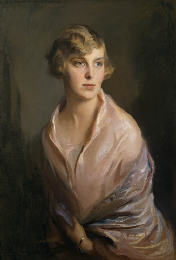 The Infanta doña María Cristina de Borbón y Battenberg (1911-1996), daughter of Alfonso XIII